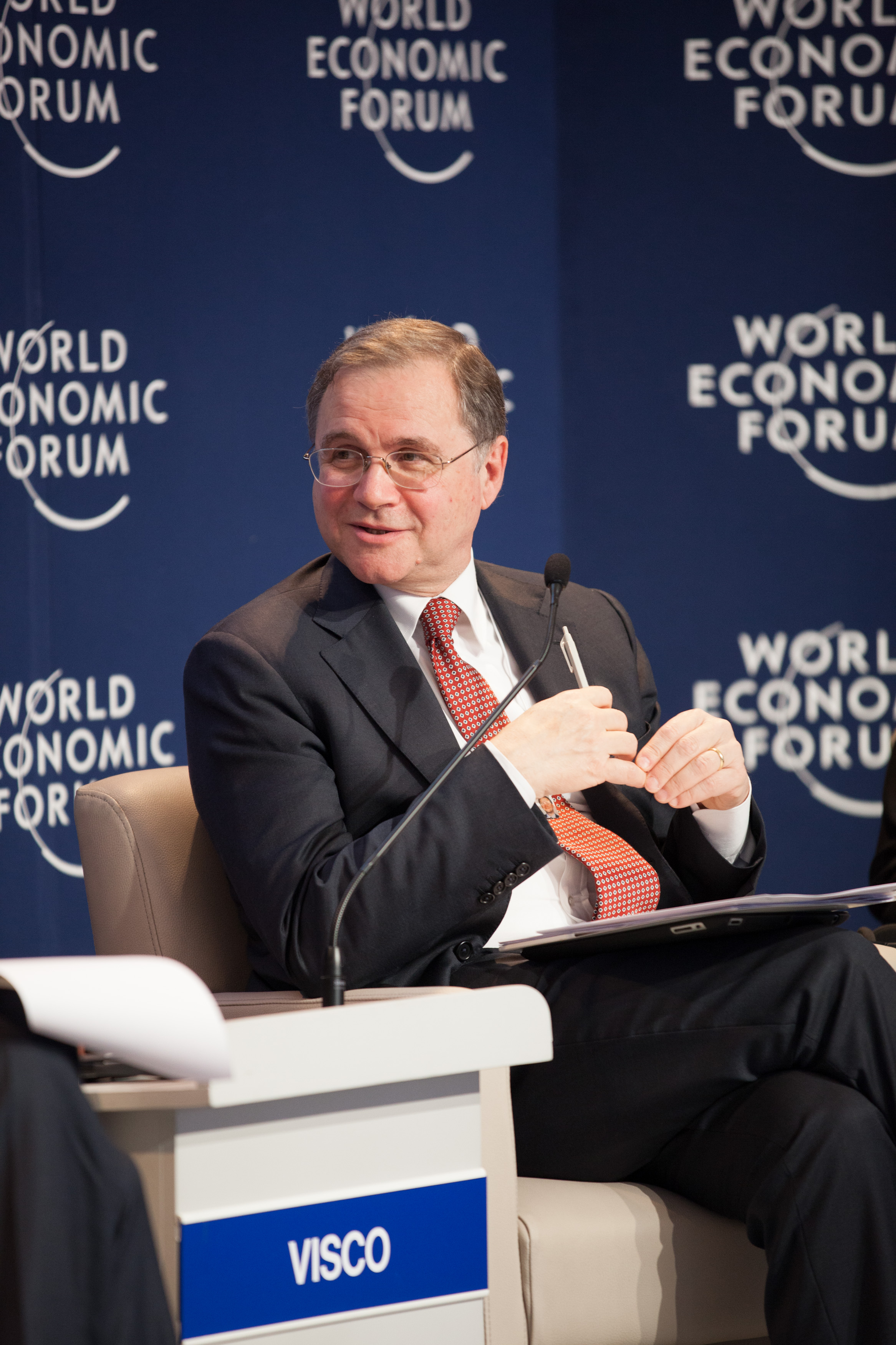 Ignazio Visco, Governor of the Bank of Italy, at the Rebuilding Europe’s Competitiveness Meeting, Villa Madama, Rome 30th October 2012